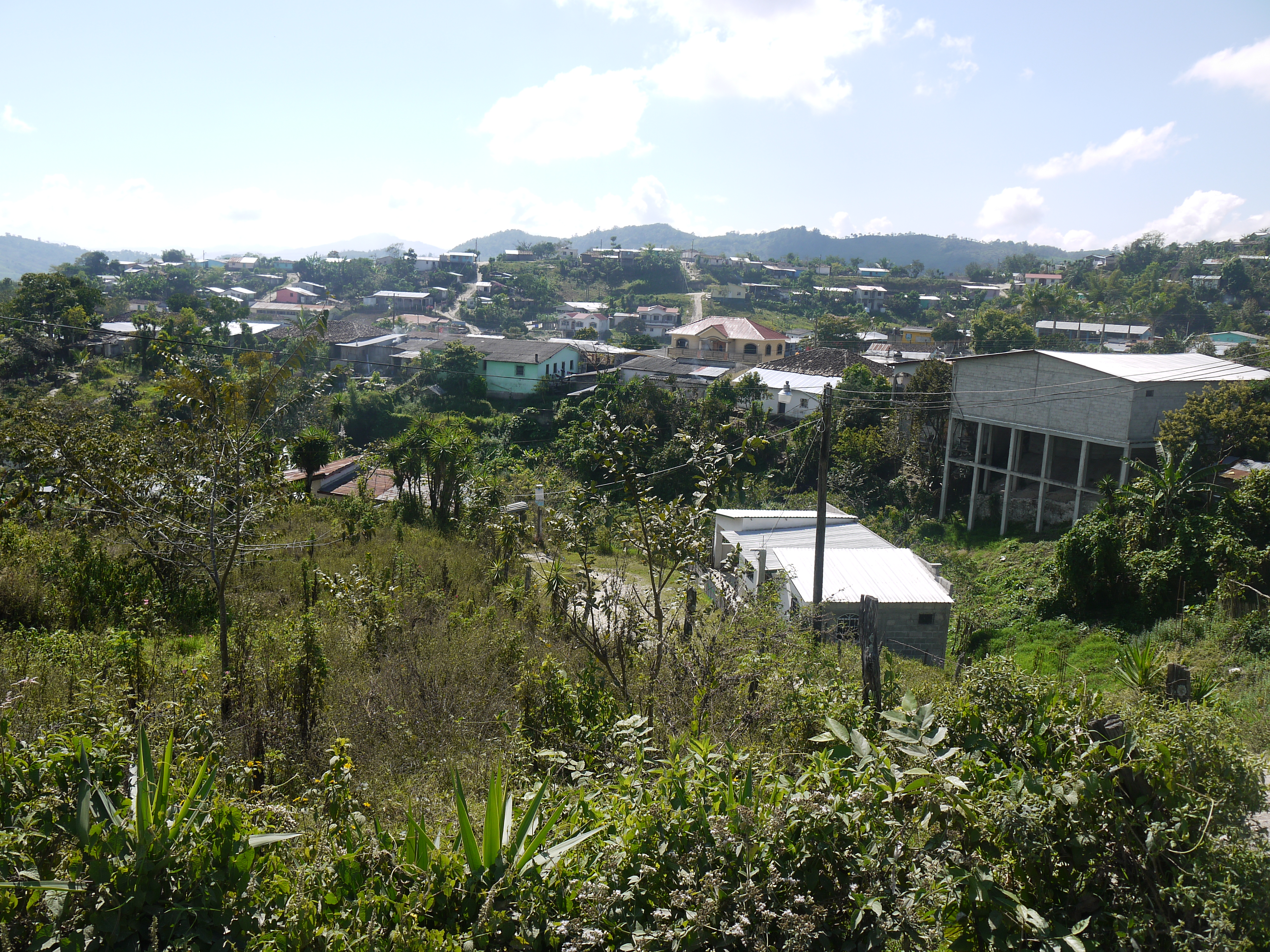 View looking South as one enters the North side of the town of Proteccion on the main road from the Chalmeca turnoff (desvio).